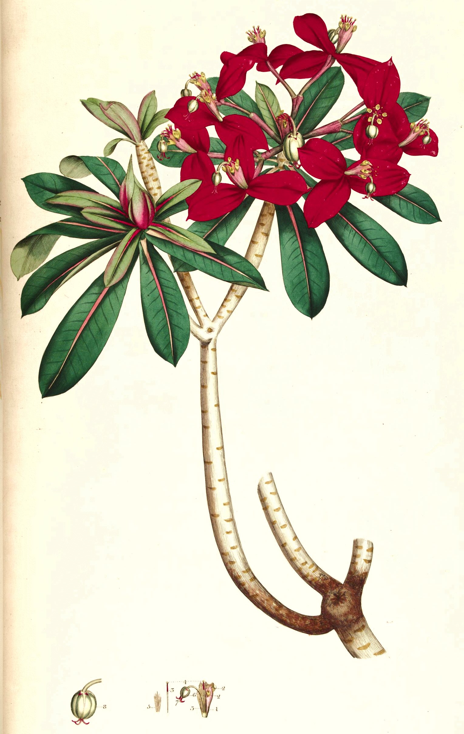 Plate from book